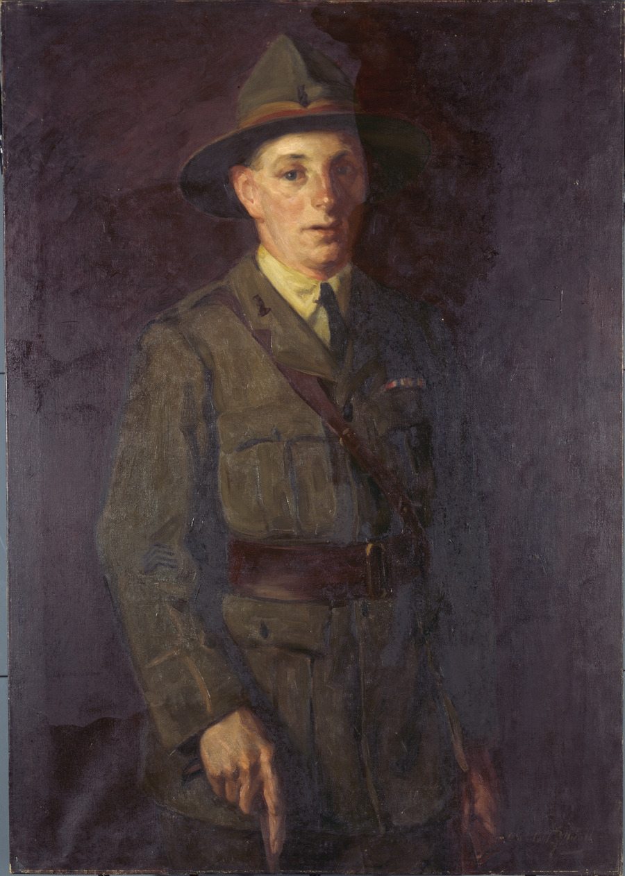 A portrait by Archibald Nicoll of Second Lieutenant Harry Laurent VC of the NZEF, painted in 1920